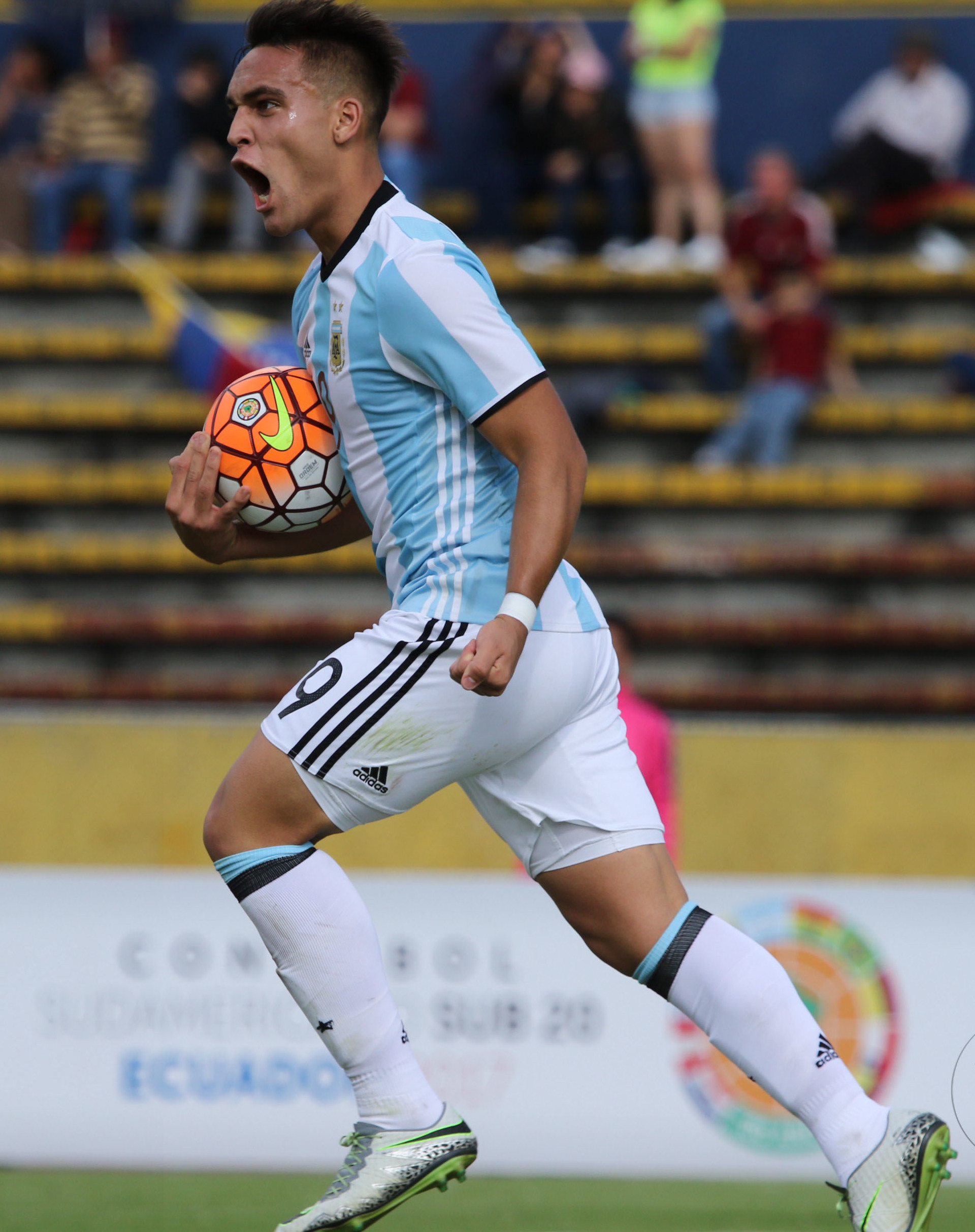 ARGENTINA VS VENEZUELA SUB 20